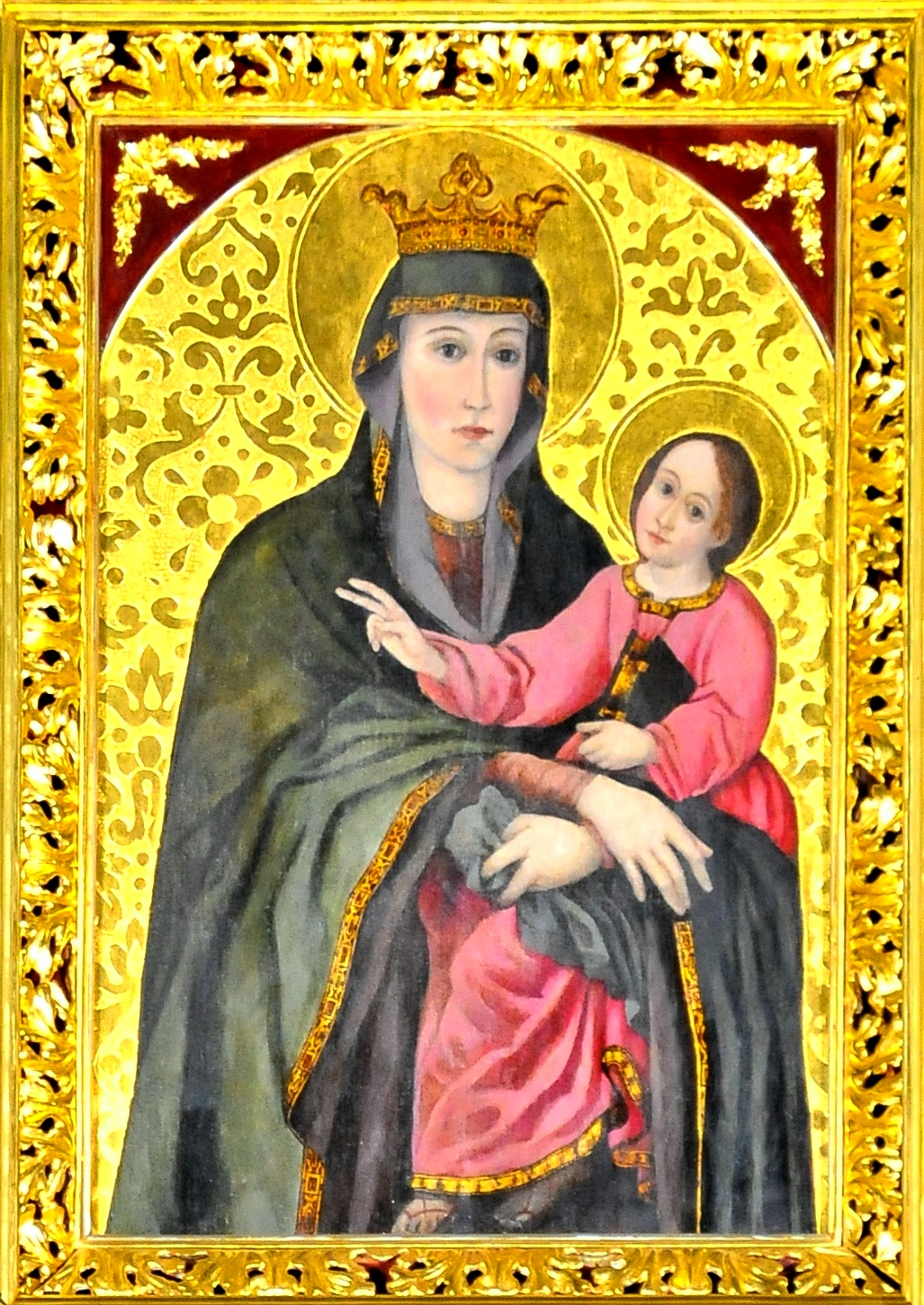 Our Lady of Bączal Dolny